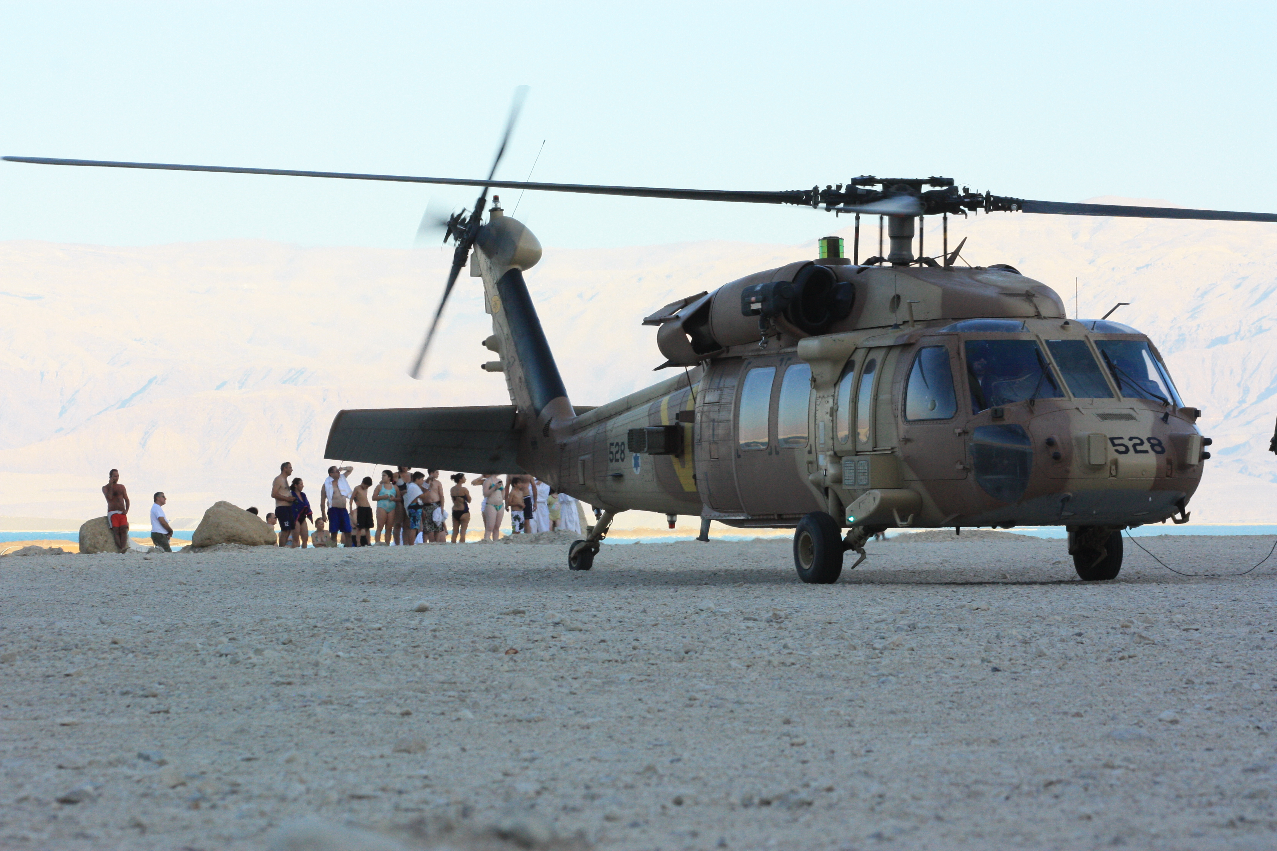 sea of dead, Geography of Israel